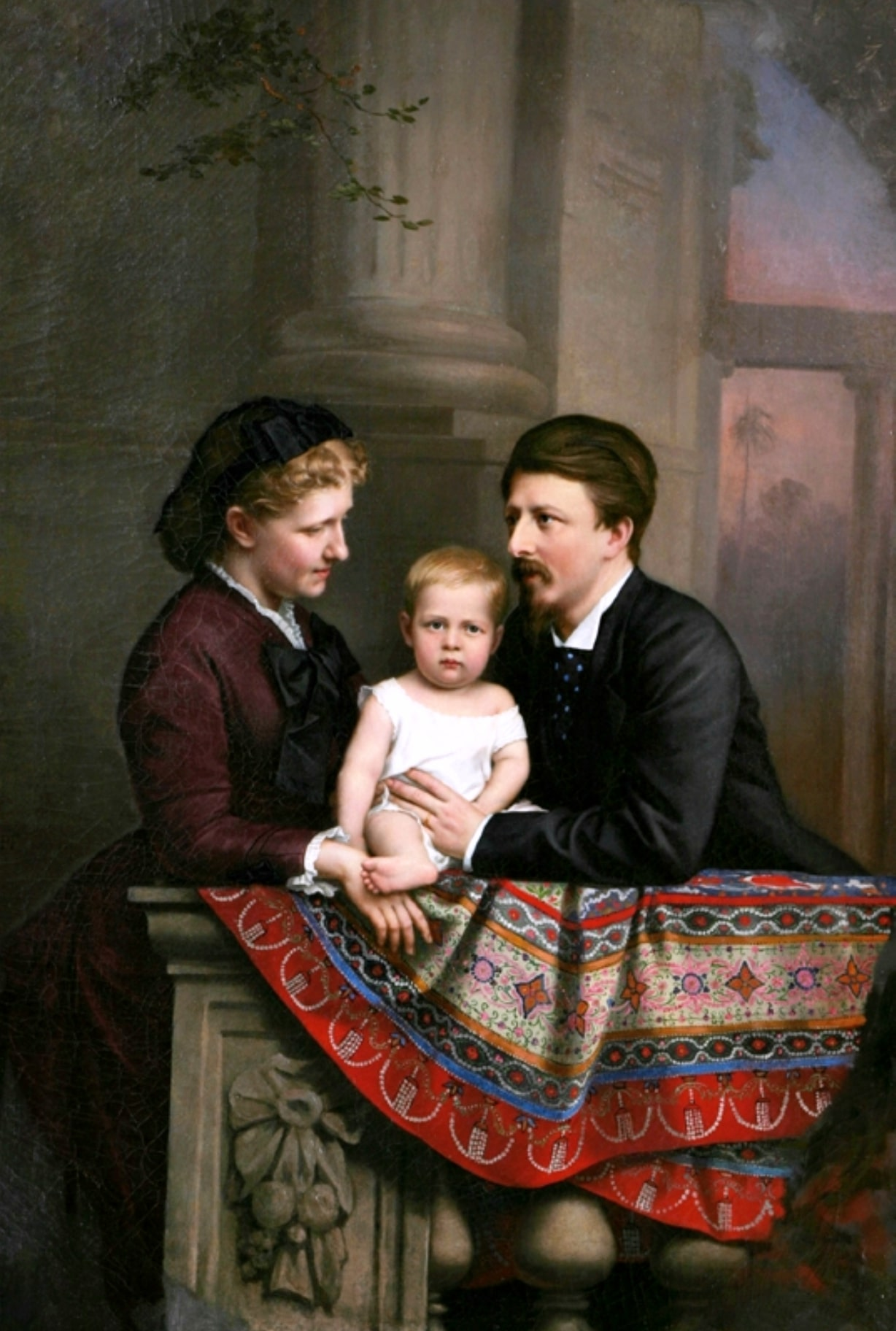 Portrait of Isabel of Brazil (1846-1921), her husband Gaston d'Orléans (1842-1922) and their son Pedro de Alcântara (1875-1940)